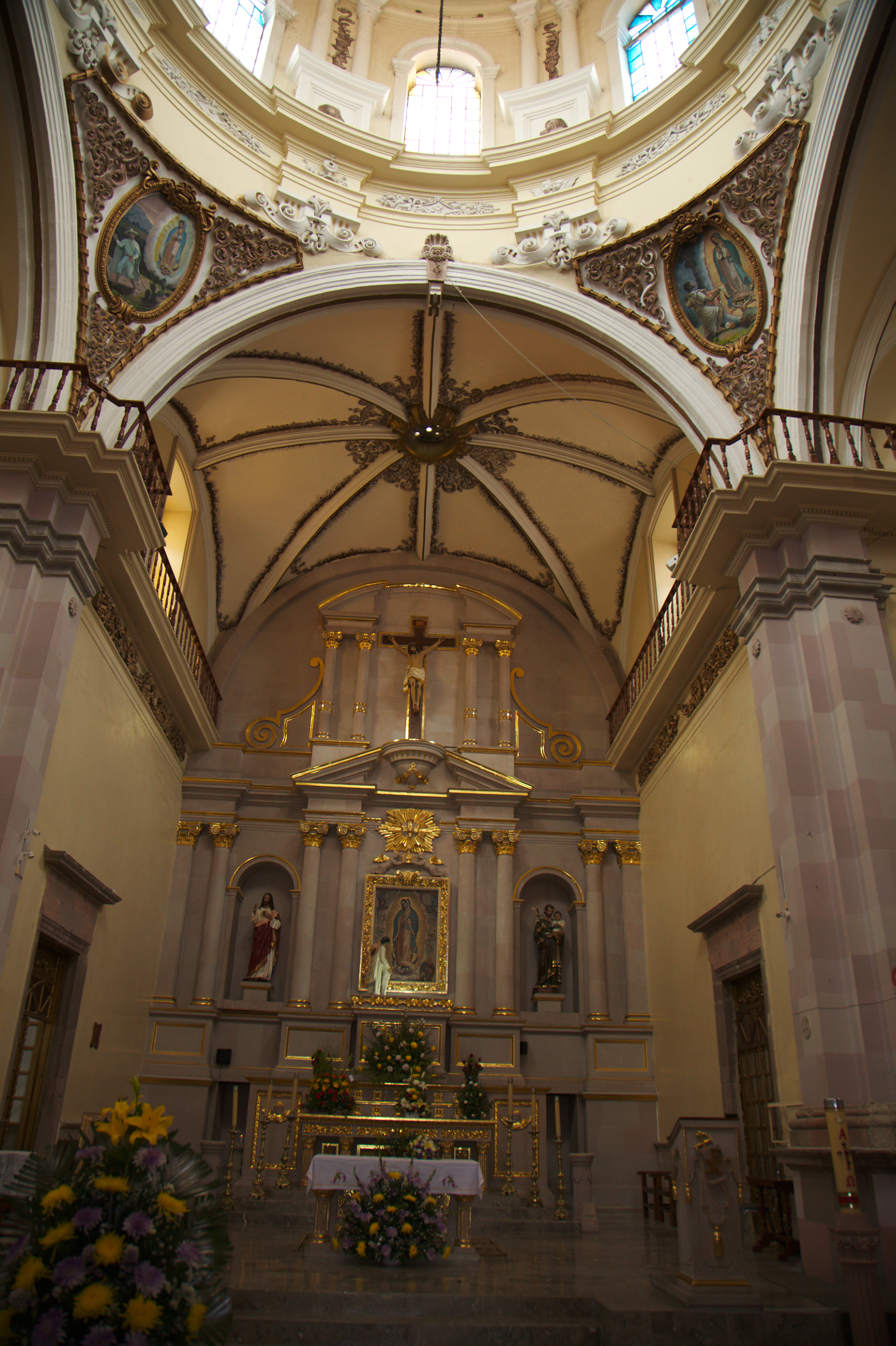 The interior of the church Nuestra Senora de Guadalupe in Ameca, Jalisco, Mexico